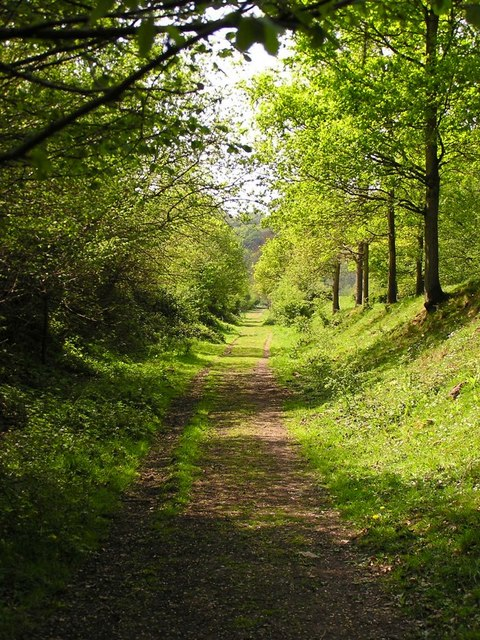 Wye Valley Walk Part of the Wye Valley Walk as it follows the route of the old Lydbrook Junction to Monmouth Railway.